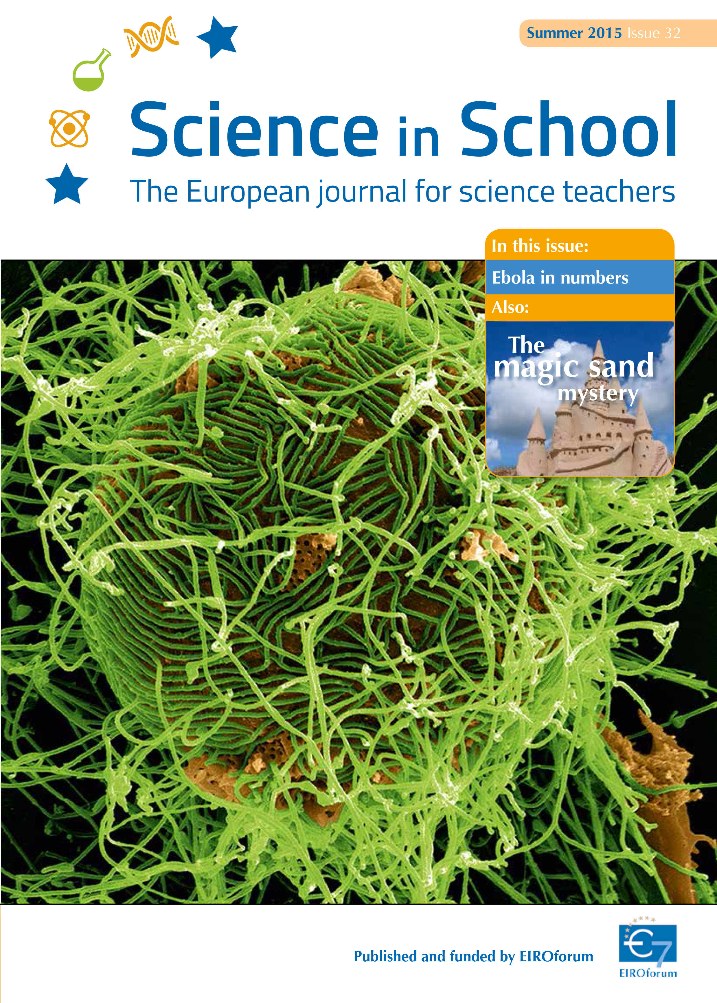 Science in School aims to promote inspiring science teaching by encouraging communication between teachers, scientists, and everyone else involved in European science education. It is published by EIROforum, a collaboration between eight European intergovernmental scientific research organisations, of which ESO is a member. The journal addresses science teaching both across Europe and across disciplines: highlighting the best in teaching and cutting-edge research.